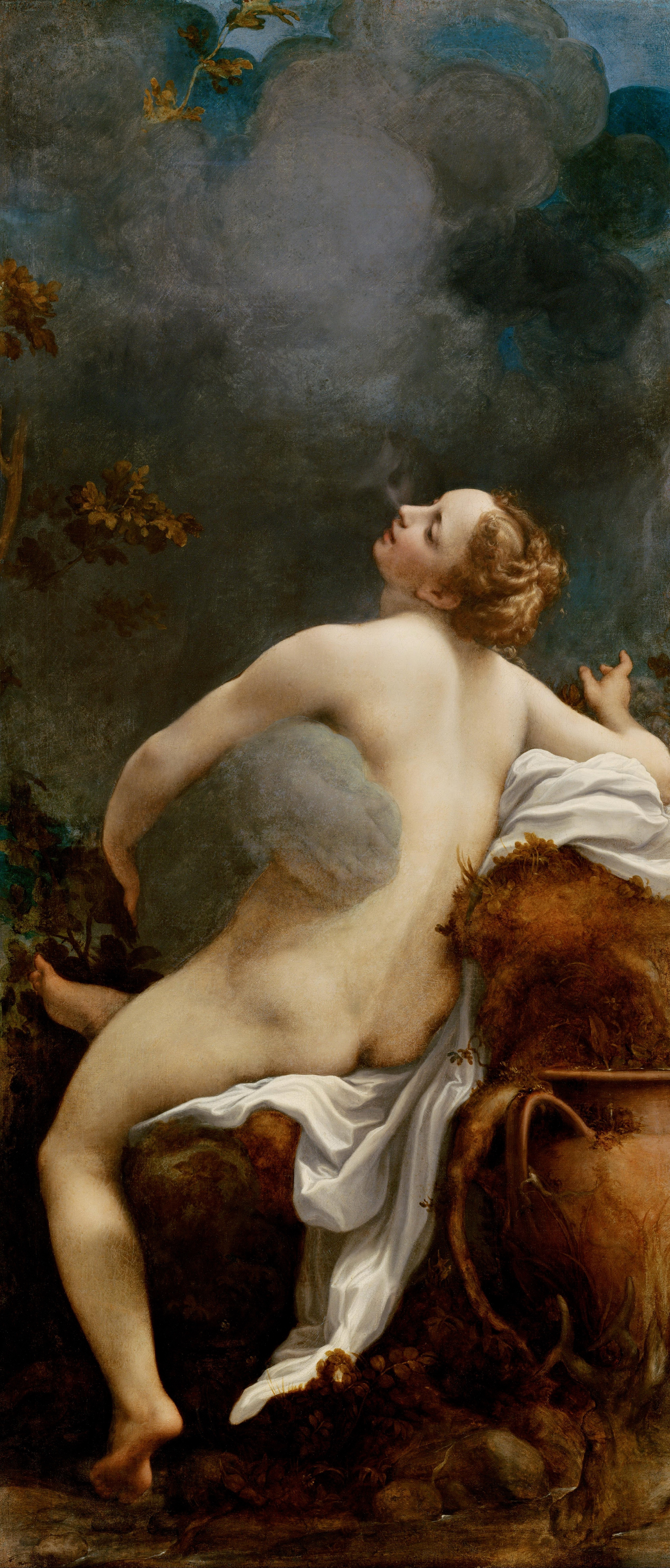 Zeus shown as a cloud since he is the greek sky god makes love with a mortal woman named Io